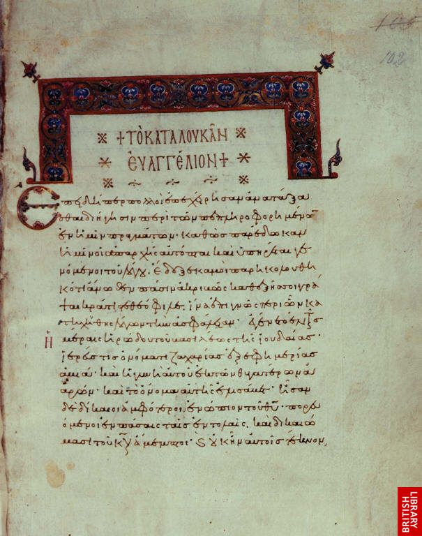 folio 102 of the codex with the beginning of the Gospel of Luke